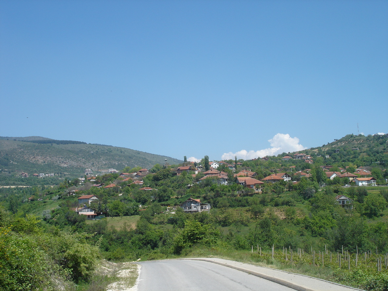 village of Rakotinci, near Skopje, Macedonia